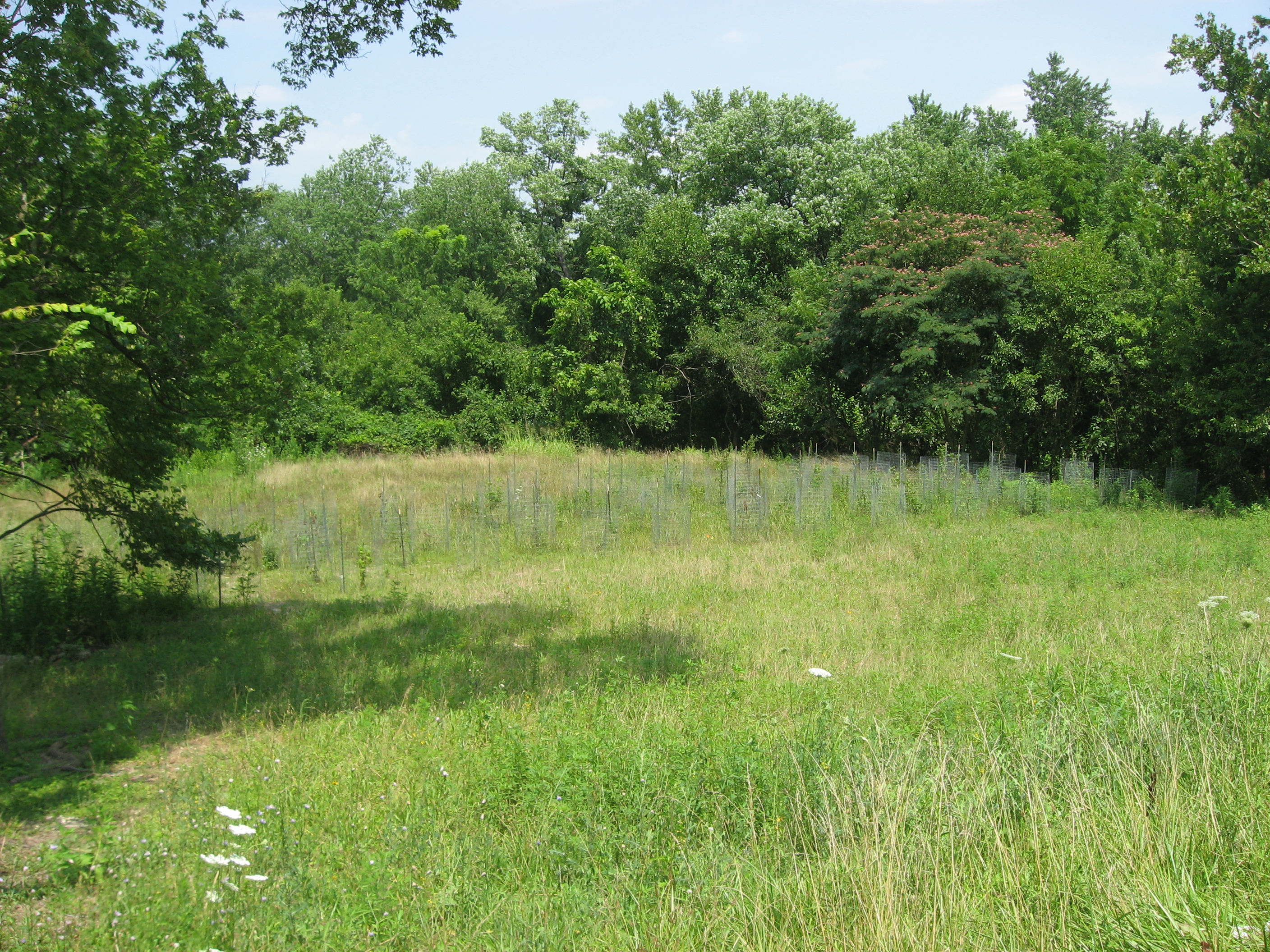 A grassy field along the old Batavia Road (State Route 32) atop the Sand Ridge in northwestern Anderson Township, Hamilton County, Ohio, United States. Known for centuries as an archaeological site of the Fort Ancient culture, the ridge is now part of the Clough Creek and Sand Ridge Archeological District, which is listed on the National Register of Historic Places.